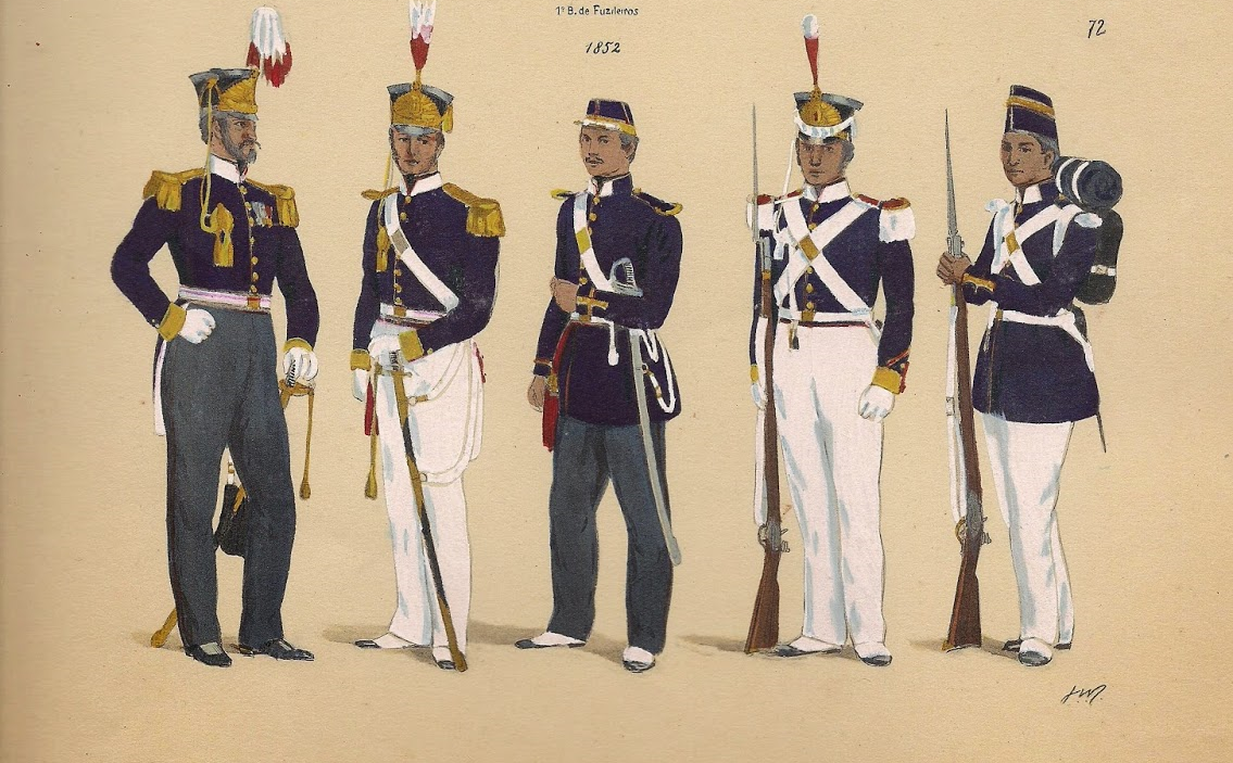 Officers and infantry soldier of the Imperial Army in 1852